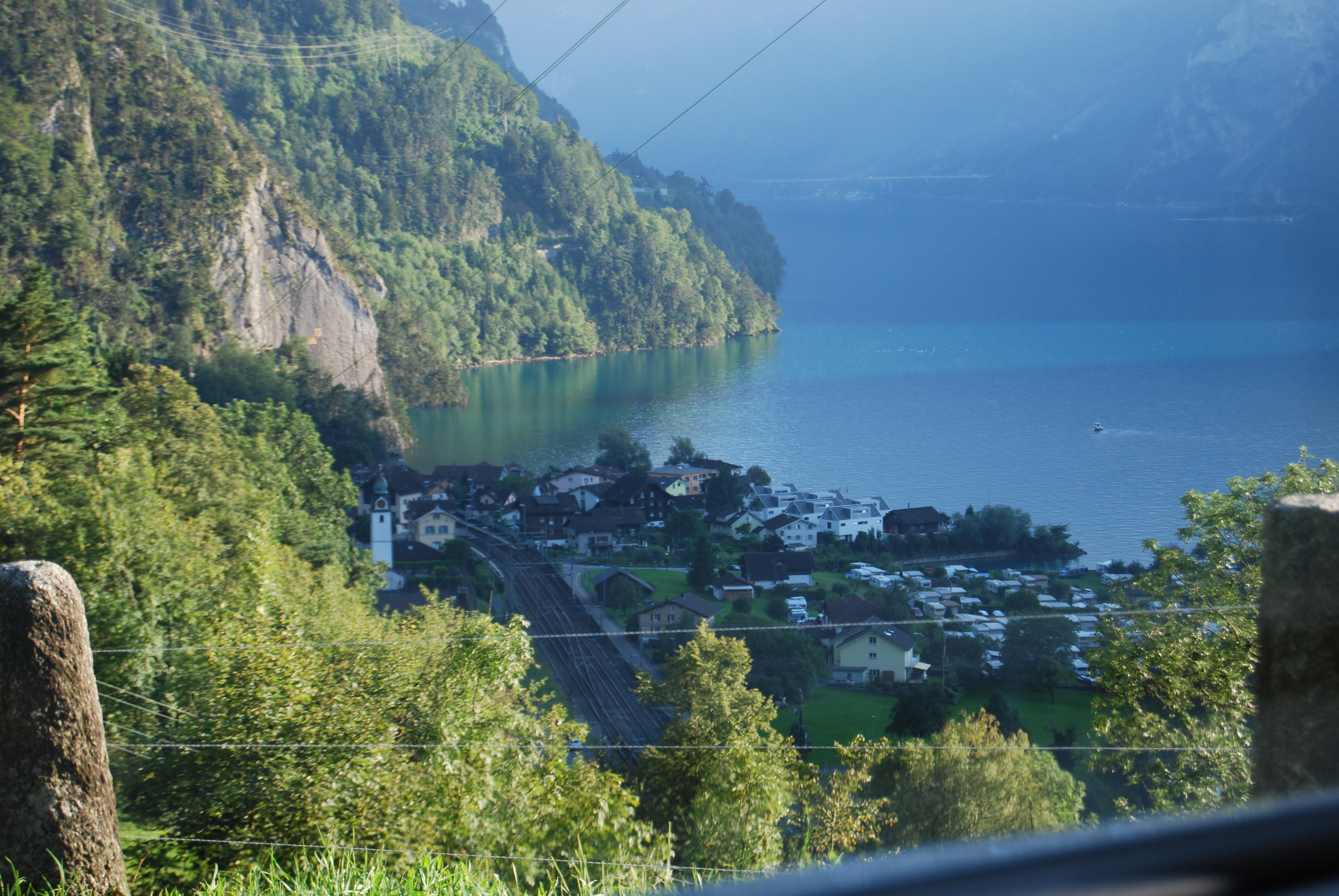 Sisikon, canton of Uri, SwitzerlandEsperanto: Sisikon, Kantono Urio, Svislando